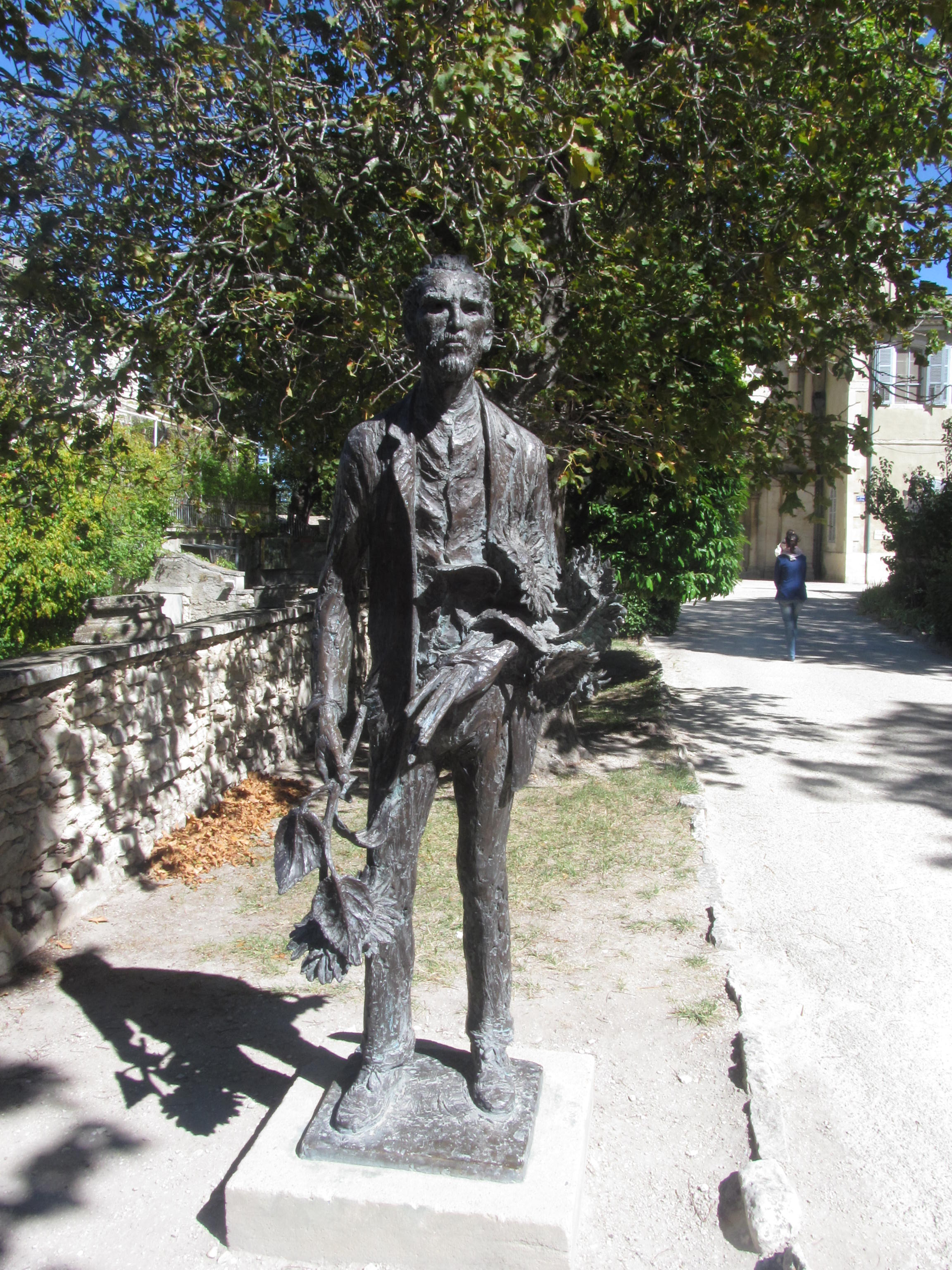 Statue of Vincent van Gogh in Monastery